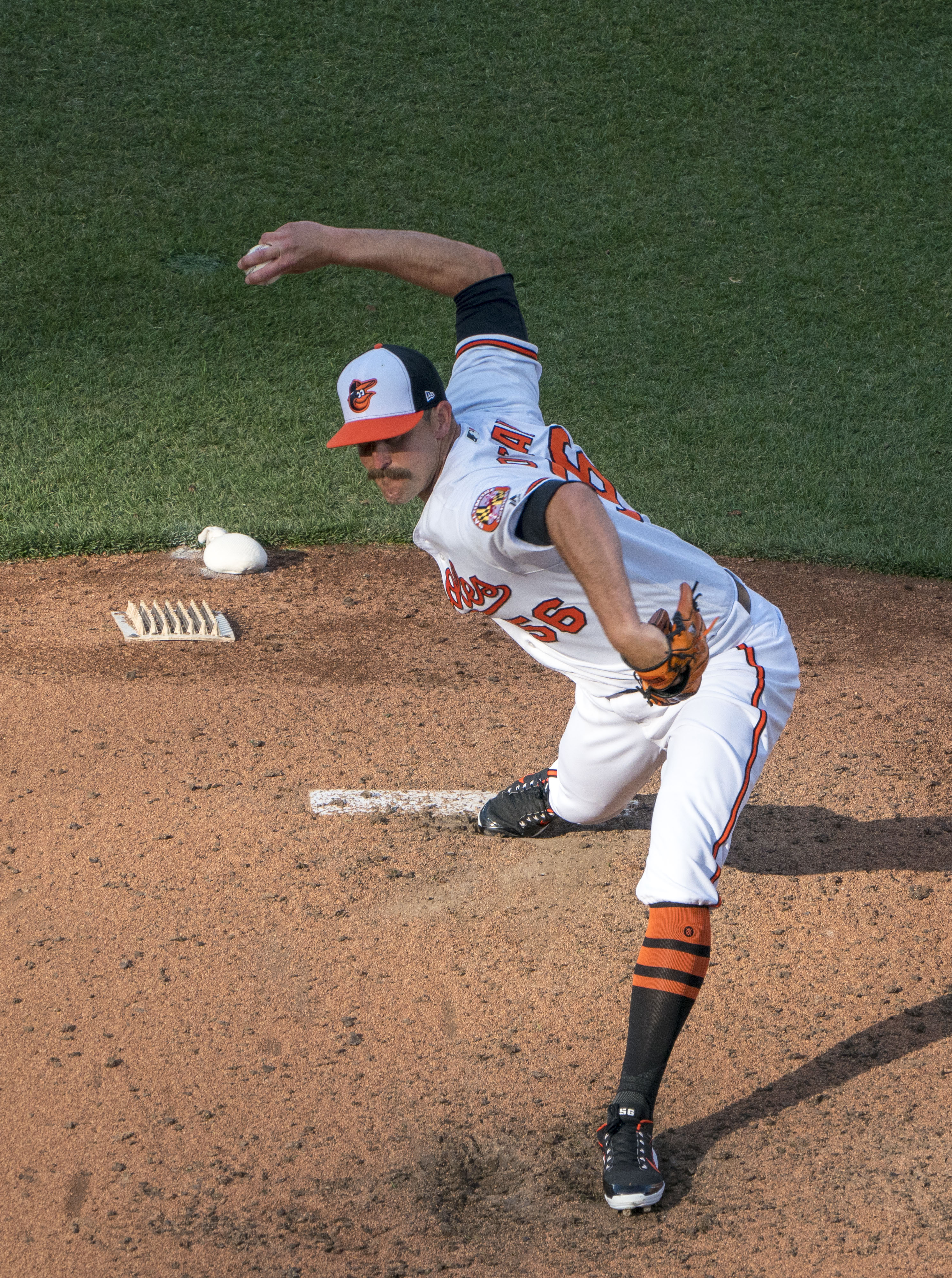 Twins at Orioles 3/29/18